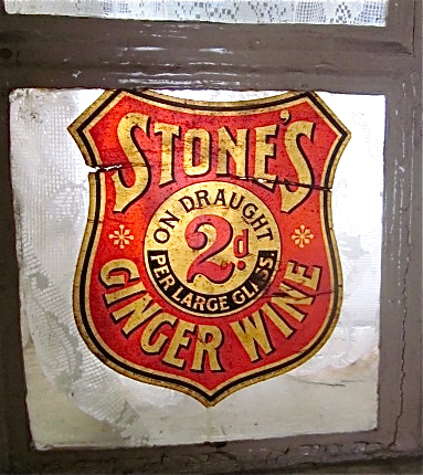 The Old King’s Head, Kirton, Lincolnshire. Stones Ginger Wine advertisement c1900